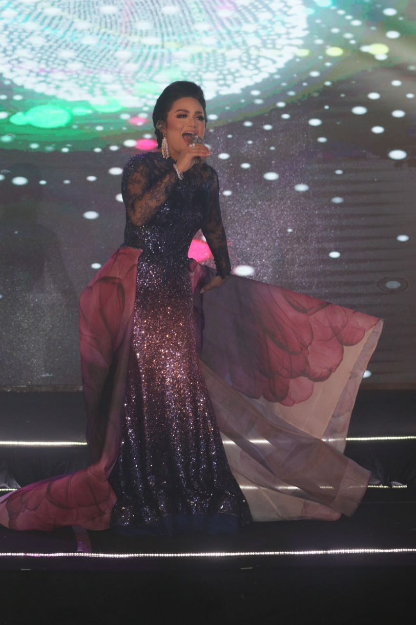 Krisdayanti performing at the inauguration of Golden Tulip Holland Resort in Batu, East Java, Indonesia.